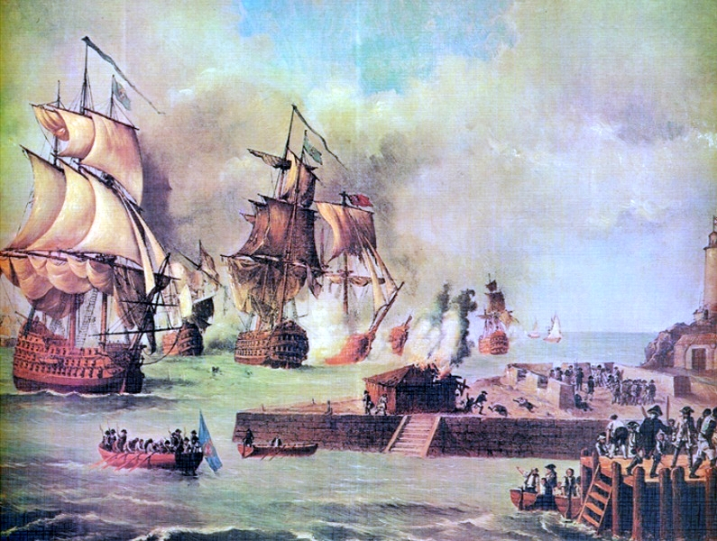 View of the engagement during the battle of Cartagena de Indias